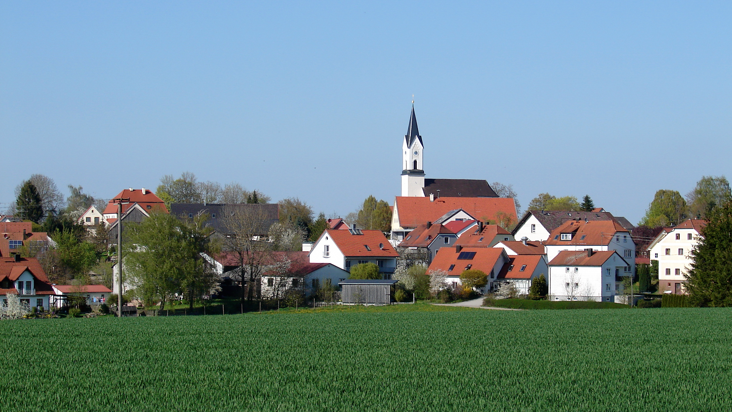 View of Attenkirchen, Bavaria